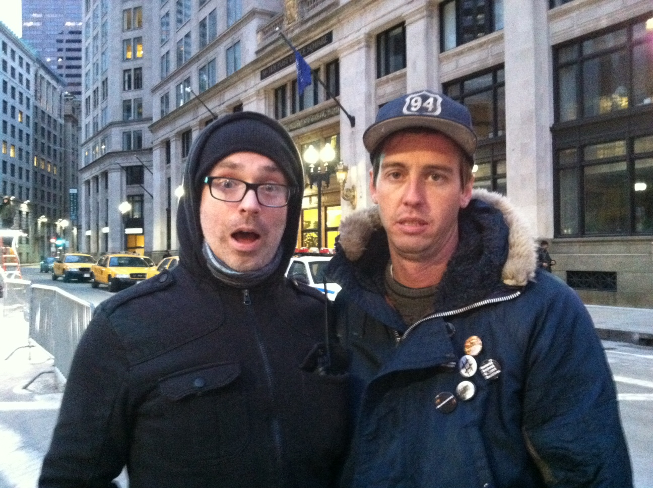 on the set of NBC's odyssey in Boston MA.